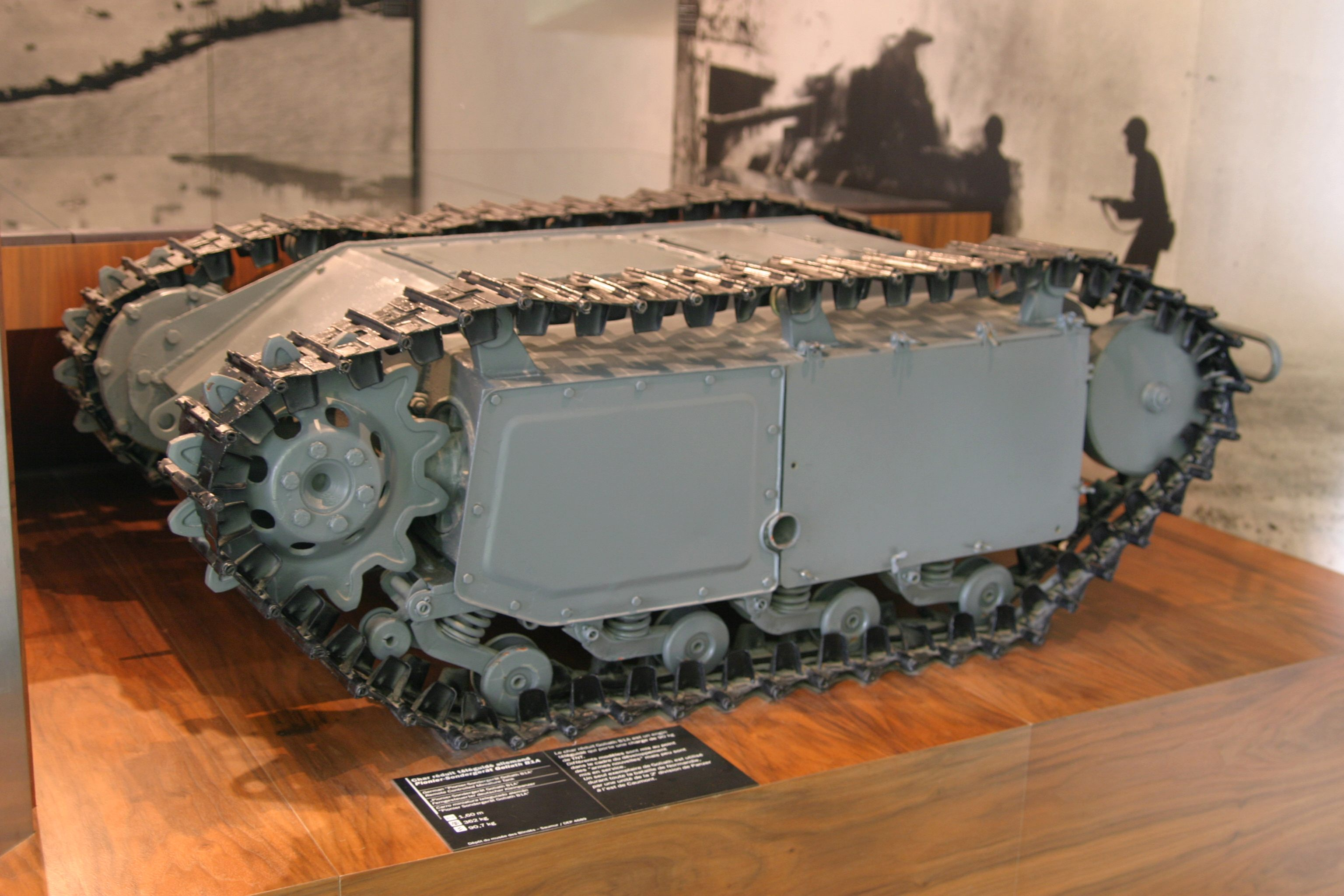 This image was taken at the Musée de l'Armée, Paris.